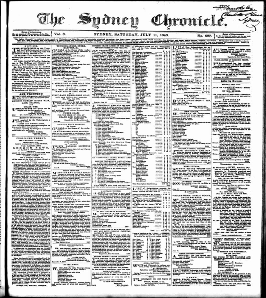 Coverpage of a historic newspaper from New South Wales, Australia.